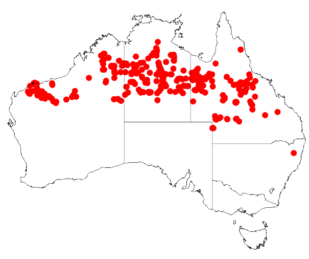 Acacia elachantha Occurrence data from Australasia Virtual Herbarium downloaded from on 8 December 2018